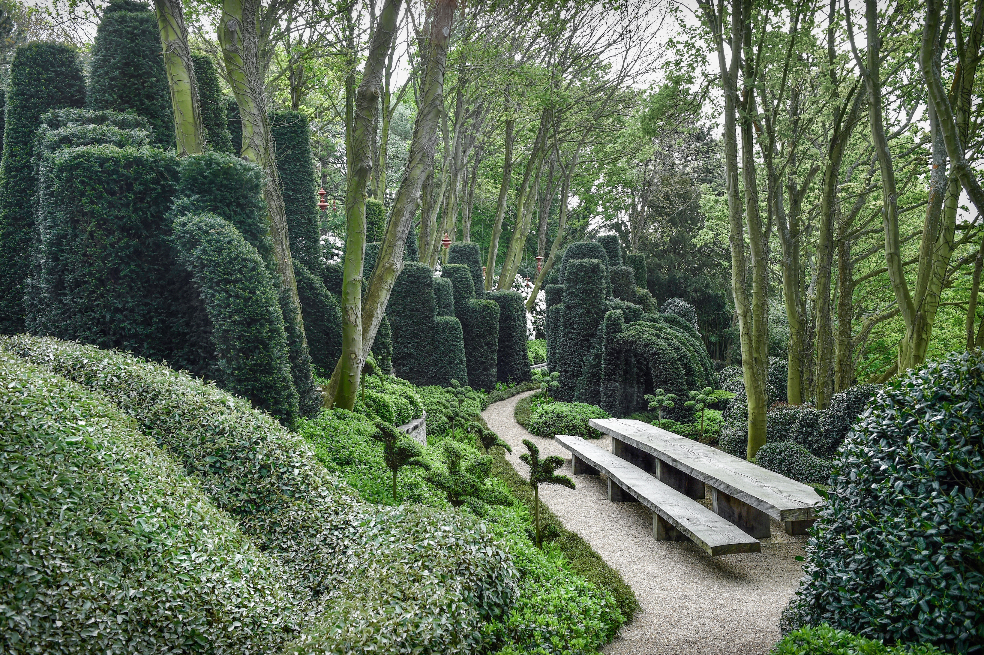 France, Etretat, Etretat Gardens, Le Jardin d'Aval